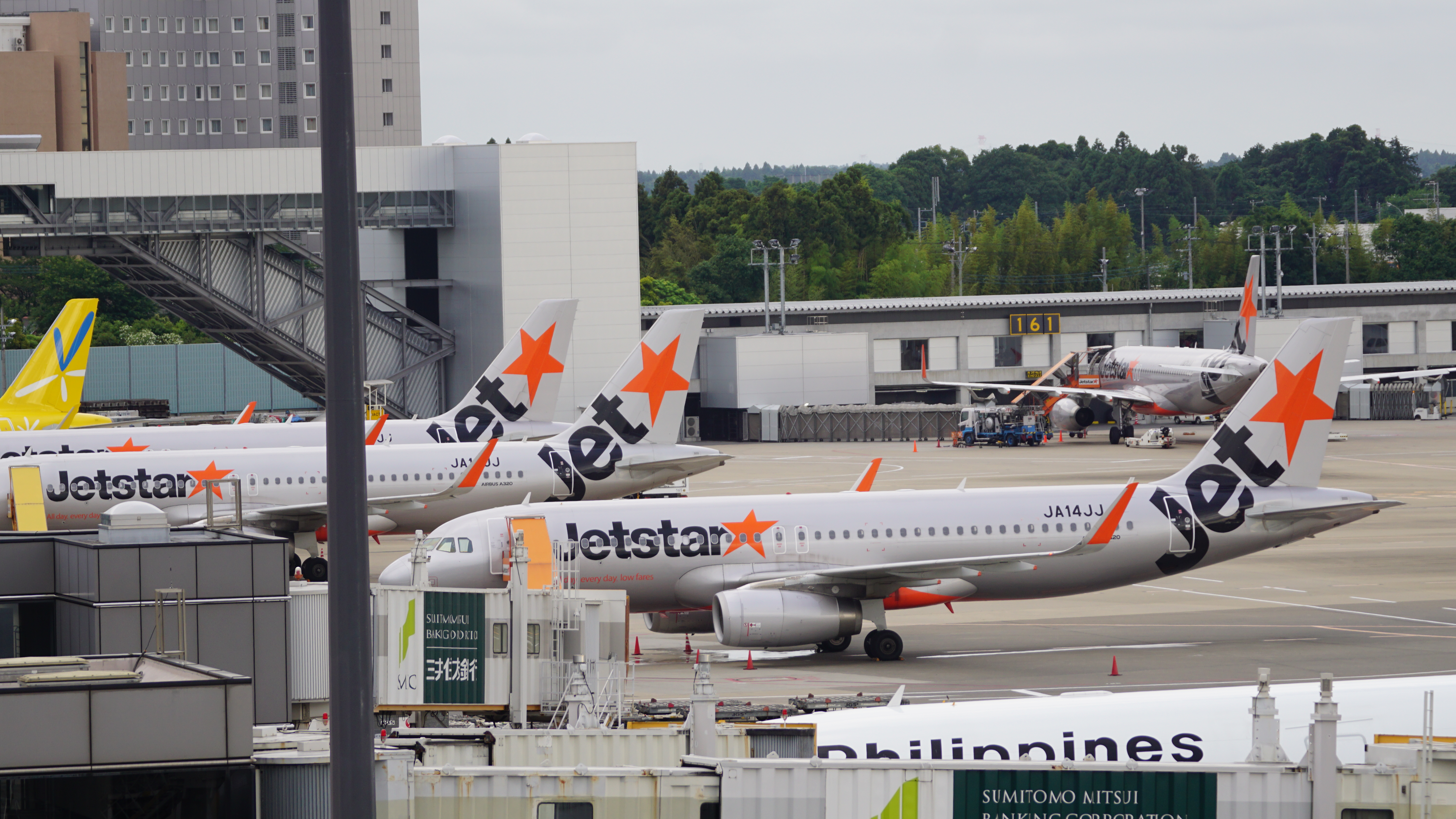 Jetstar Japan's aircraft at Narita in 2017